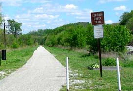 Richard Renner took this picture of the Conotton Creek Trail in Bowerston, Ohio, on 2006-05-20. This is a view from the zero mile mark, looking east along the trail.